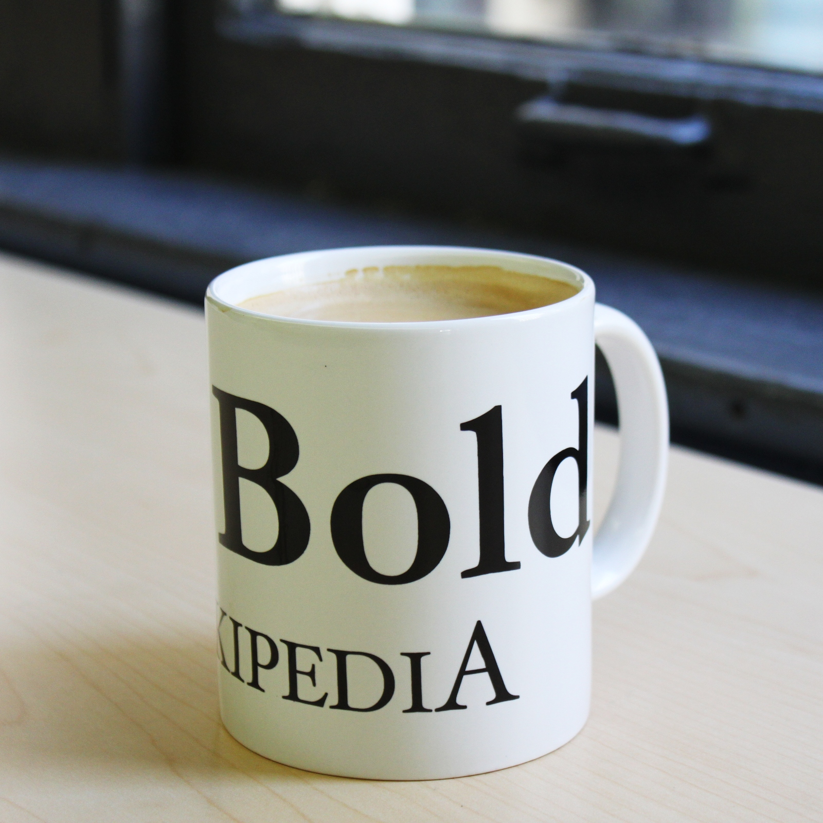 A "Be Bold" Wikipedia coffee mug filled with coffee, in the Wikimedia Foundation office, with the light of a partly cloudy autumn day in San Francisco coming through the kitchen window